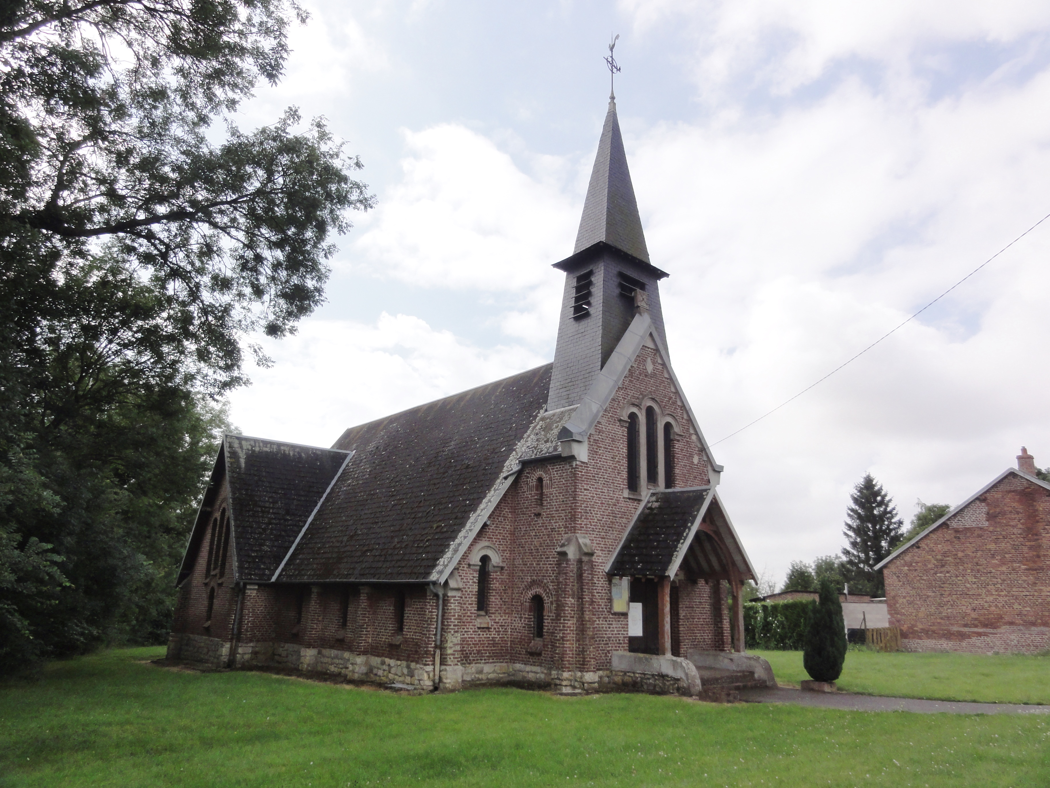 Germaine (Aisne) église Saint-Martin